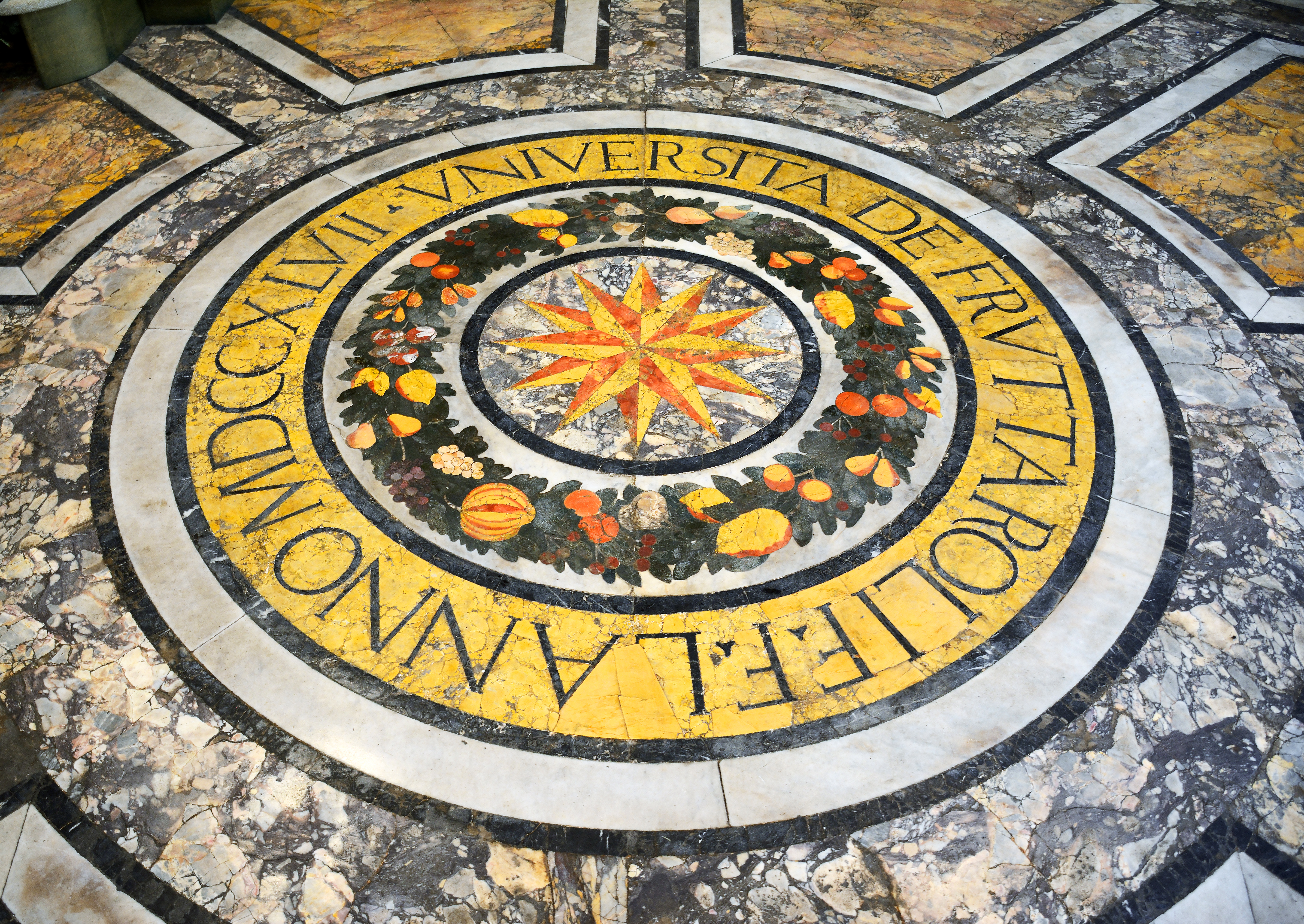 Center of Church Santa Maria dell'Orto (Rome)